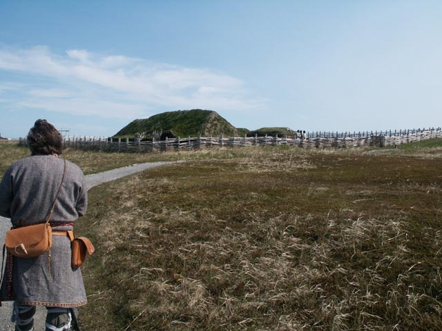 Viking colonisation site at L'Anse-aux-Meadows, Newfoundland, Canada The site of early viking colonisation in L'anse aux Meadows in the northwesternmost corner of the island of Newfoundland PD user:carlb from a June 2002 travel photo